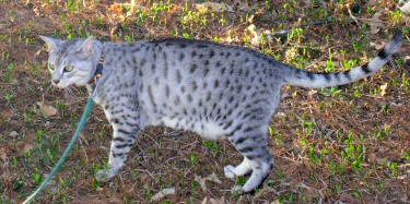 Uploaded by creator (Catbar/Brian A. Rock) snapshot of CFA Premier Shainefer's Albion Argent, an Egyptian Mau cat Albion is a bit long for a Mau. He's also a bit overweight in this picture and the angle is not too flattering in that respect. I hope to take a better picture of him this spring or summer. Note the leash: it is often noted that Maus can be taught to walk with a leash.